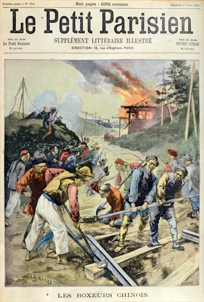 A newspaper from "Le Petit Parisien". The Chinese Boxers destroys a railroad during the Boxer Rebellion.